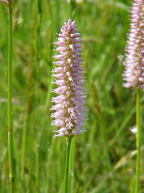 Species: Polygonum bistorta Family: Polygonaceae Image No. 1